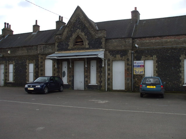 Brandon station. The station is still in use, but like so many others these days not with a working booking office. The main parts date from 1841 with most of the still original brickwork, but according to a local volunteer who was cleaning up the area needs £400,000 just to get the building back up to scratch. See 1212366 for platform side.